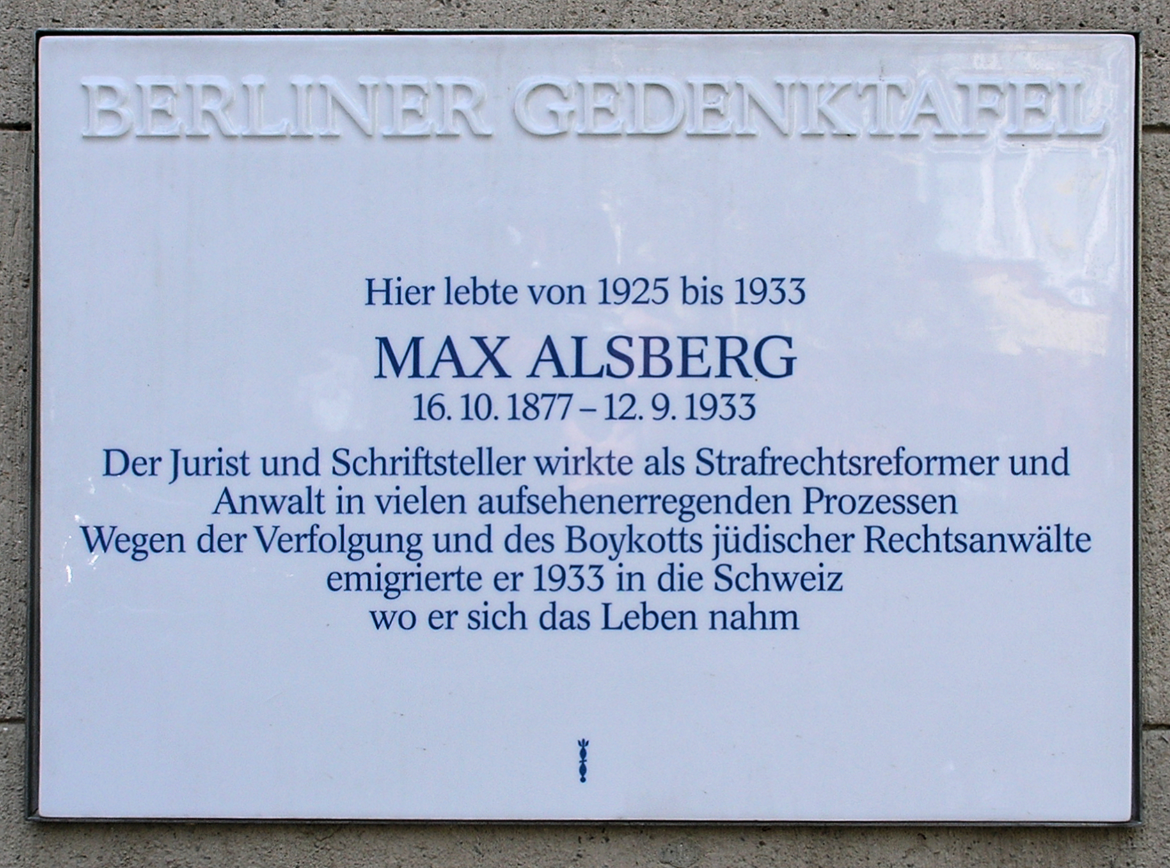 Berlin memorial plaque, Max Alsberg, Richard-Strauss-Straße 22, Berlin-Grunewald, Germany Koordinate:52°28′56″N 13°16′31″E / 52.48222°N 13.27528°E